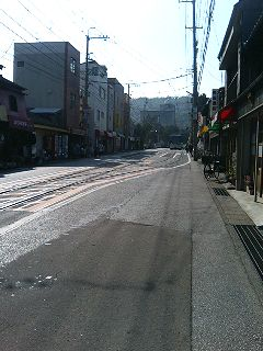 Tosa Electric Railway Asakura Stop 土佐電気鉄道 朝倉電停